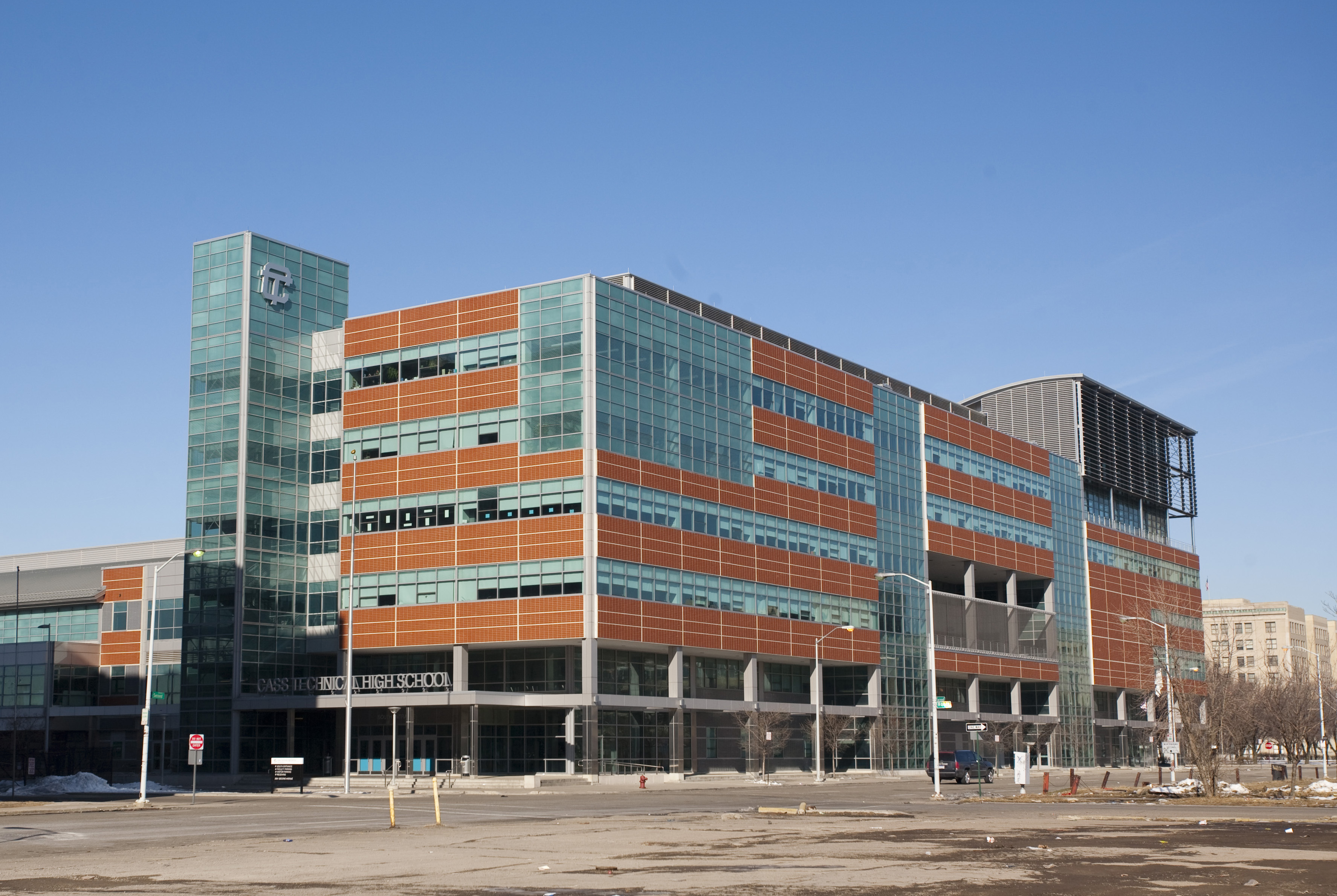 Cass Technical High School, view from Third Avenue, Detroit, Michigan.